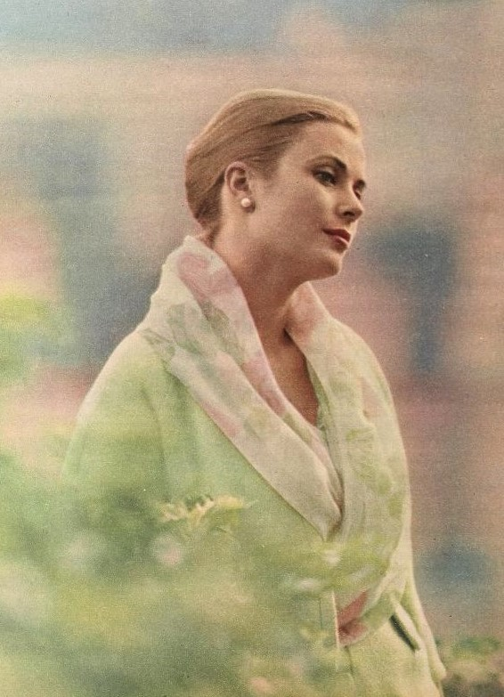 Grace Kelly by Howell Conant, 1960